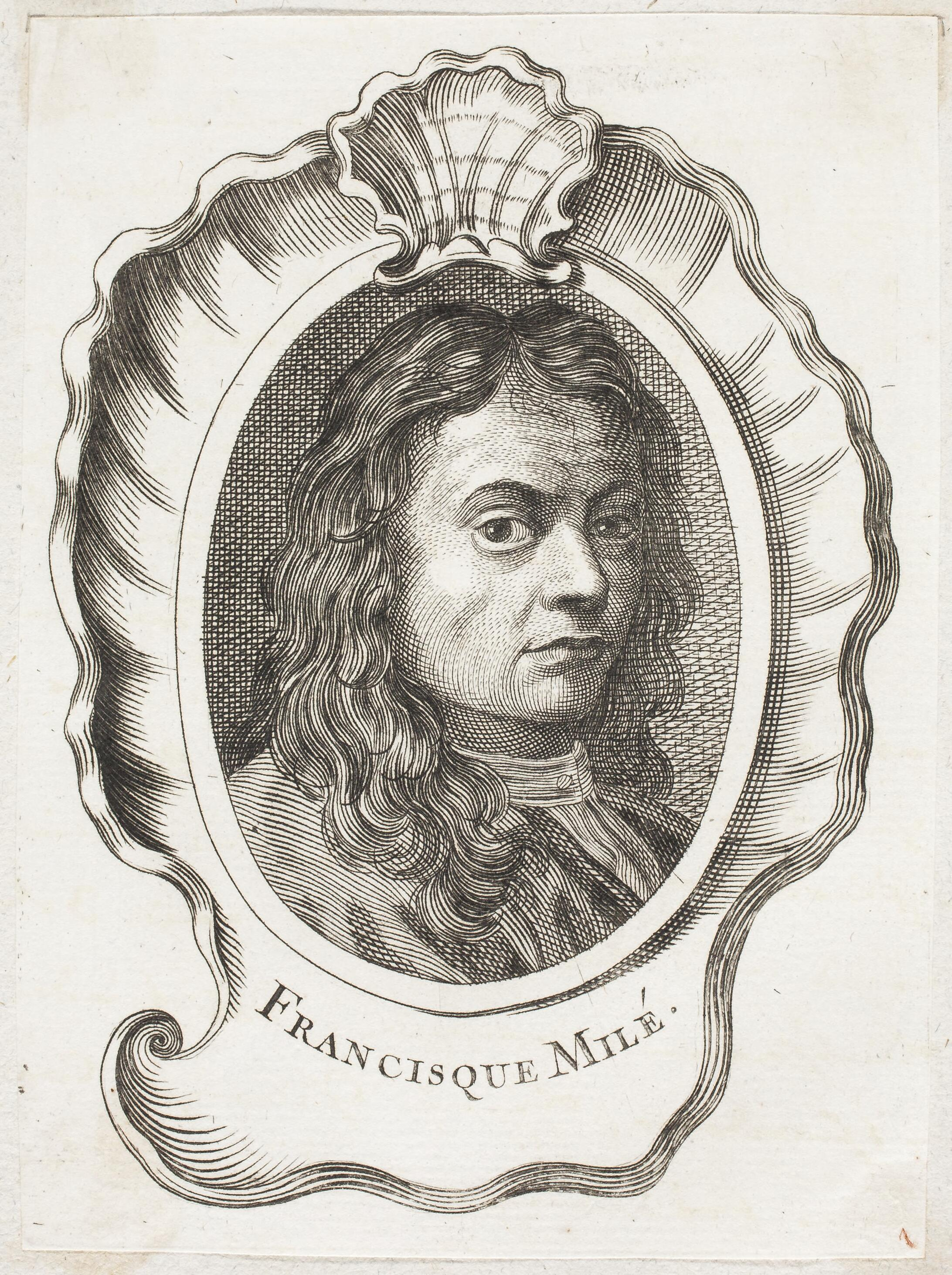 This image is available from the Netherlands Institute for Art Historyunder digital ID 274883. This tag does not indicate the copyright status of the attached work. A normal copyright tag is still required. See Commons:Licensing for more information.